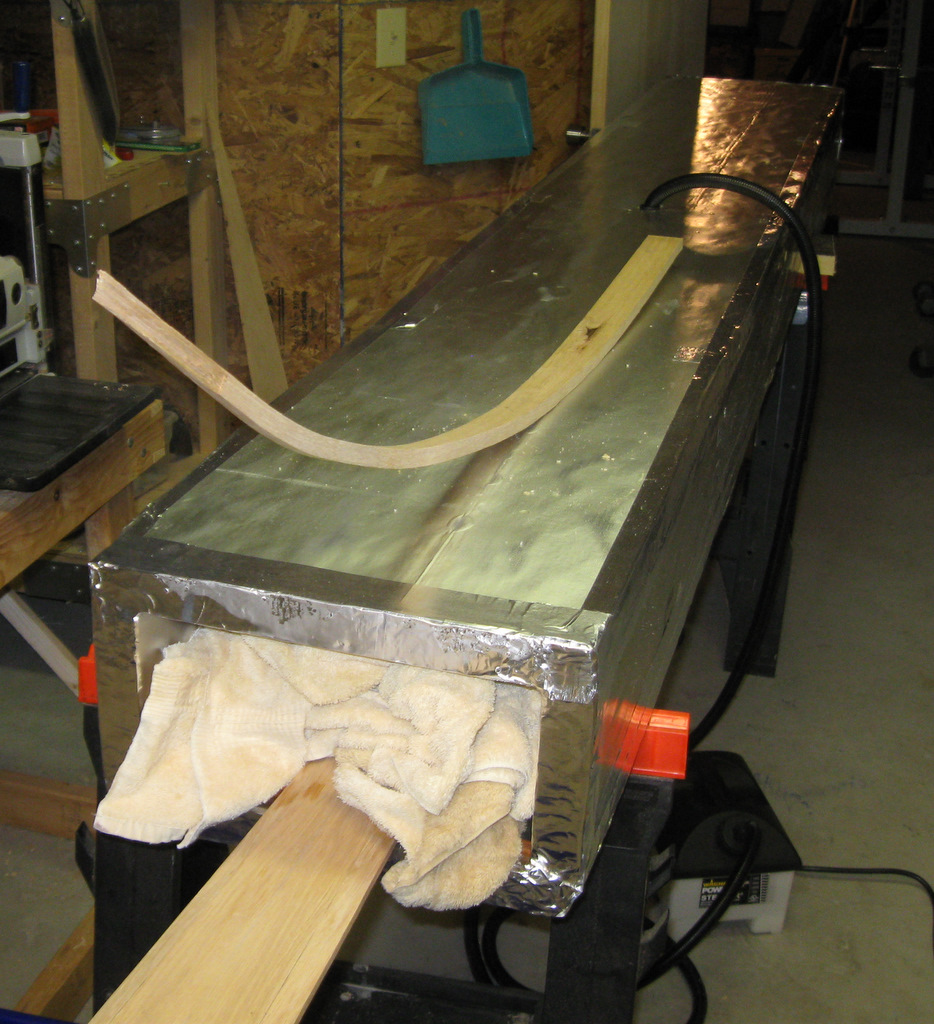 Wood Steam Box made from insulation materials